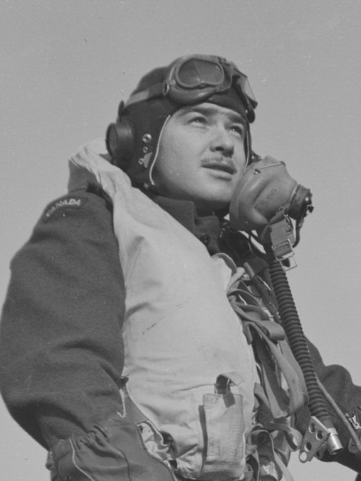 Squadron Leader Jack Jack Rife DFC & bar. CO 438 Sqn killed in flying accident on1 June 1945